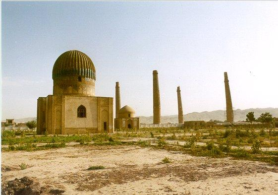 Musallah complex, Herat. Photo July 2001 by bluuurgh